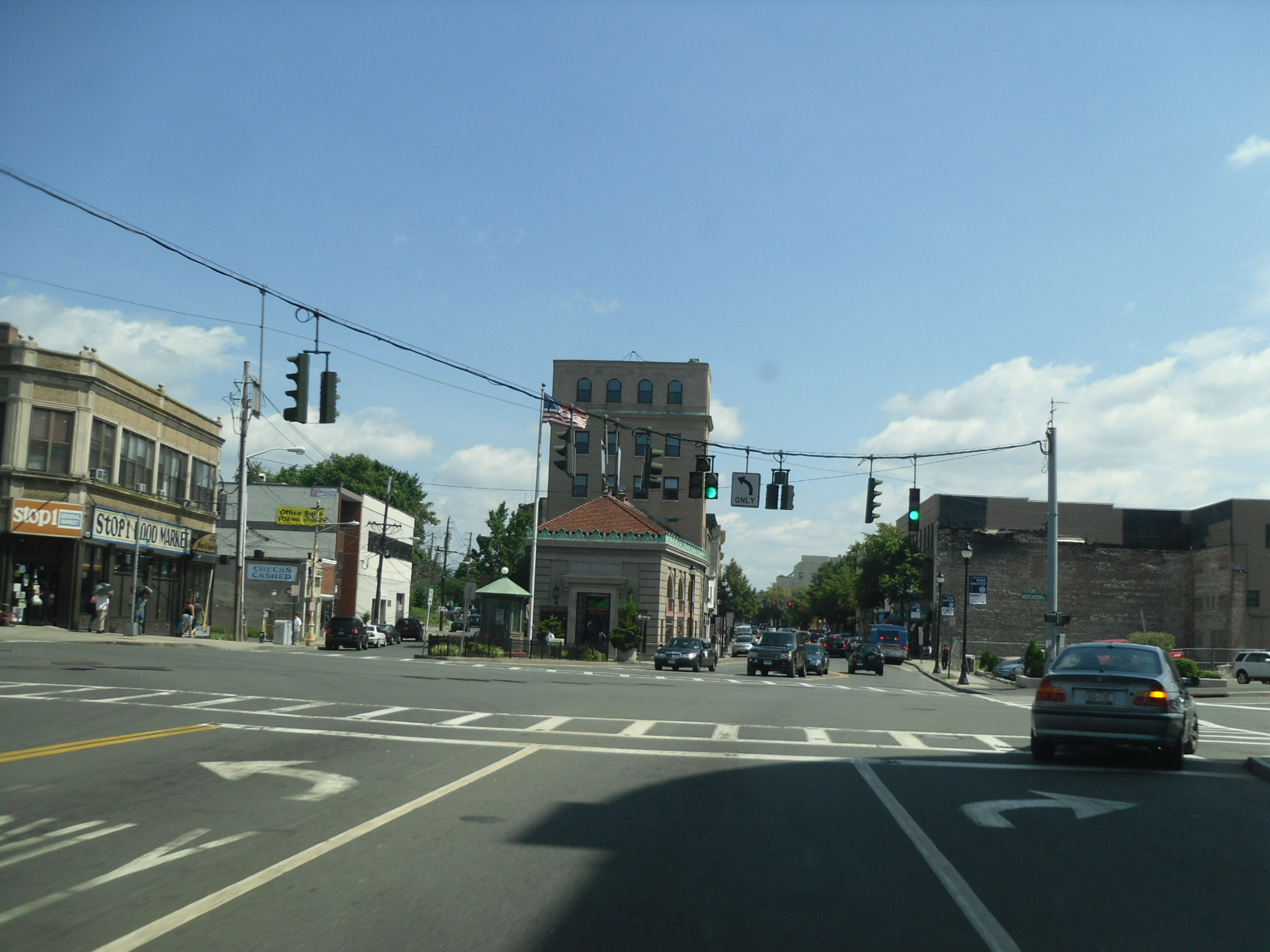 US Route 1 - New York, passing through the Village of Port Chester, New York.